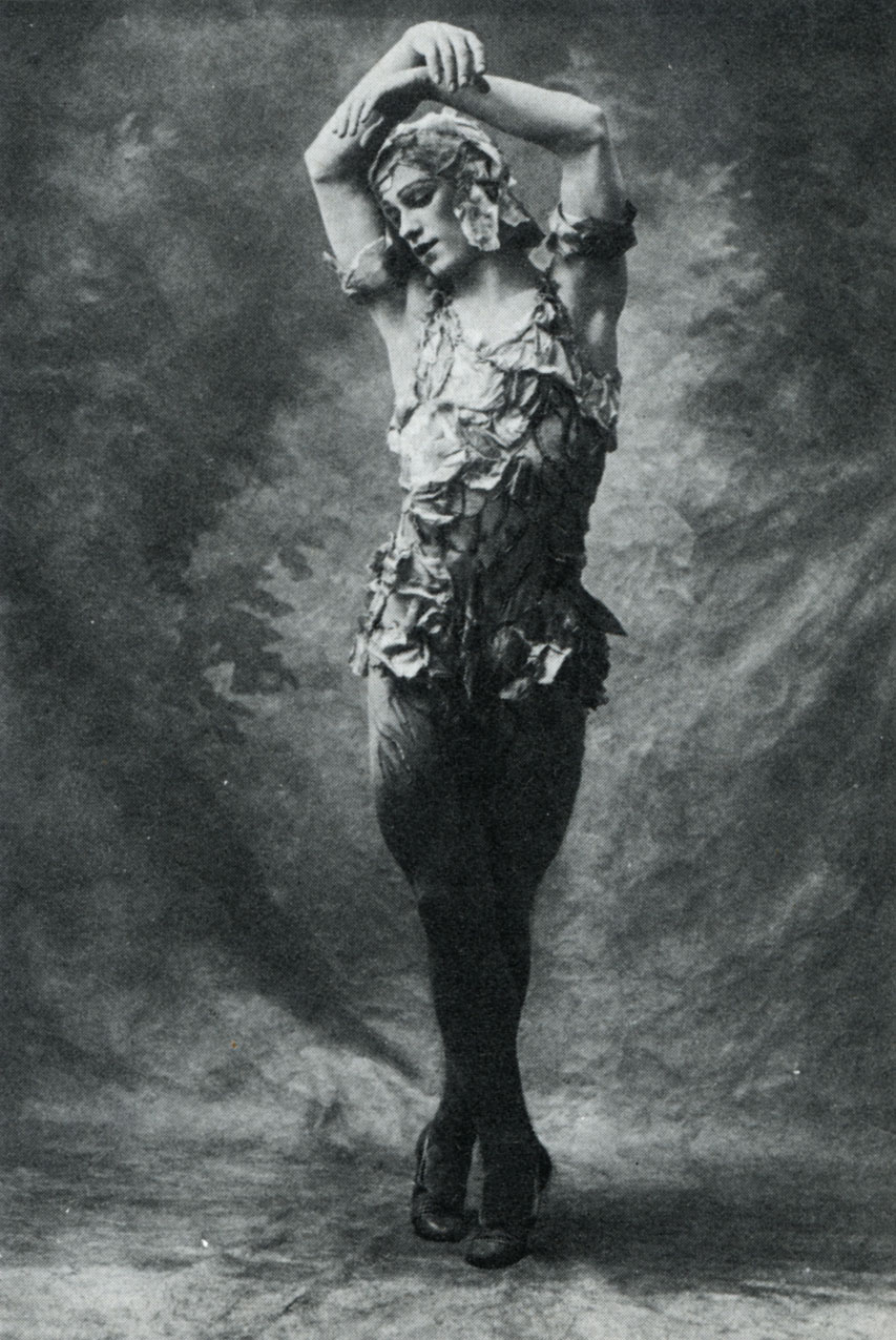 The dancer Vaslav Nijinsky in the ballet Le spectre de la rose as performed at the Royal Opera House in 1911.